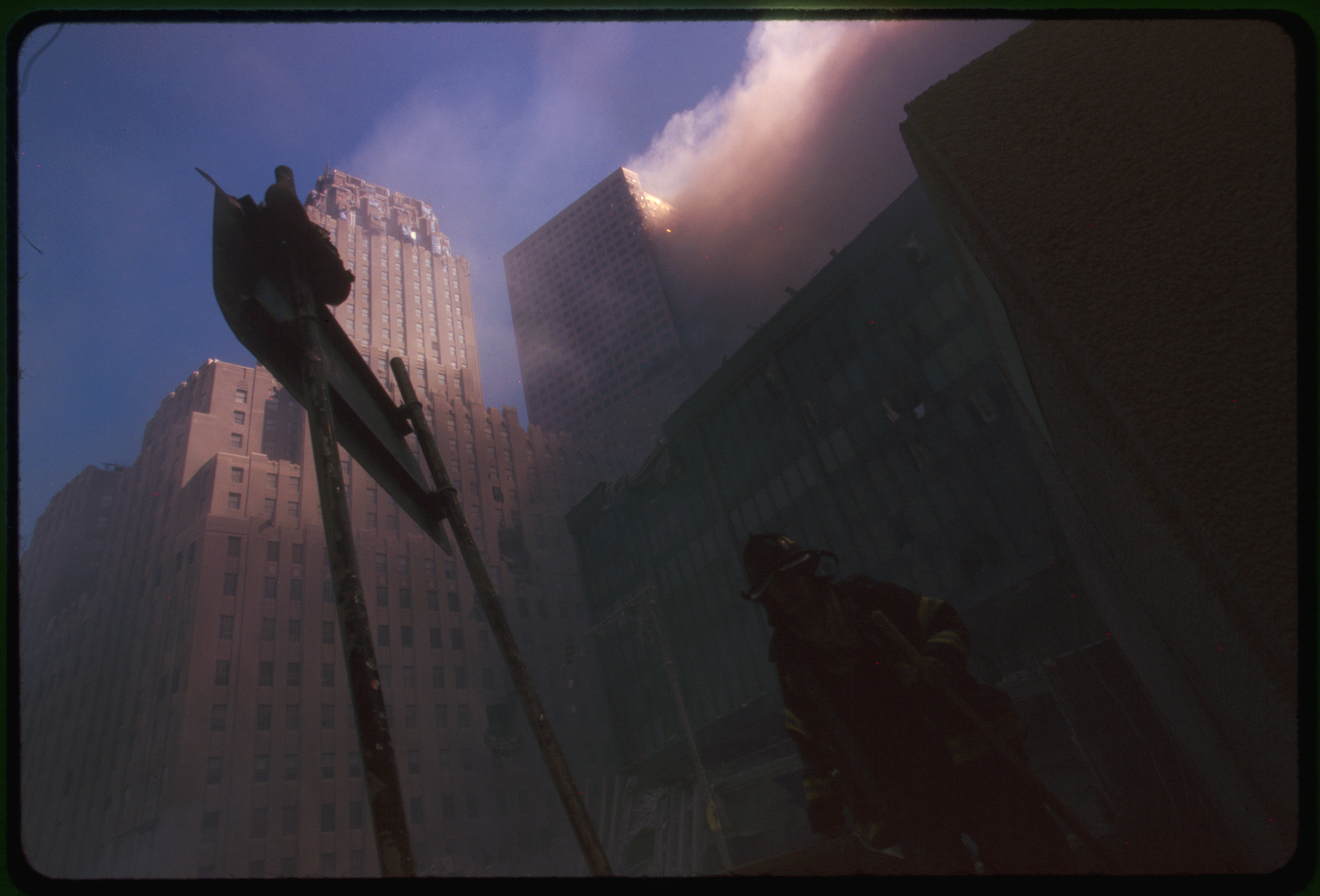 7 World Trade Center on fire. Original description by LOC staff: "Fire fighter at base of burning building following September 11th terrorist attack on World Trade Center, New York City." Photograph from the collection of unattributed photographs of the September 11th terrorist attack taken by anonymous photographer approximately between 10:00 a.m. and 1:30 p.m.